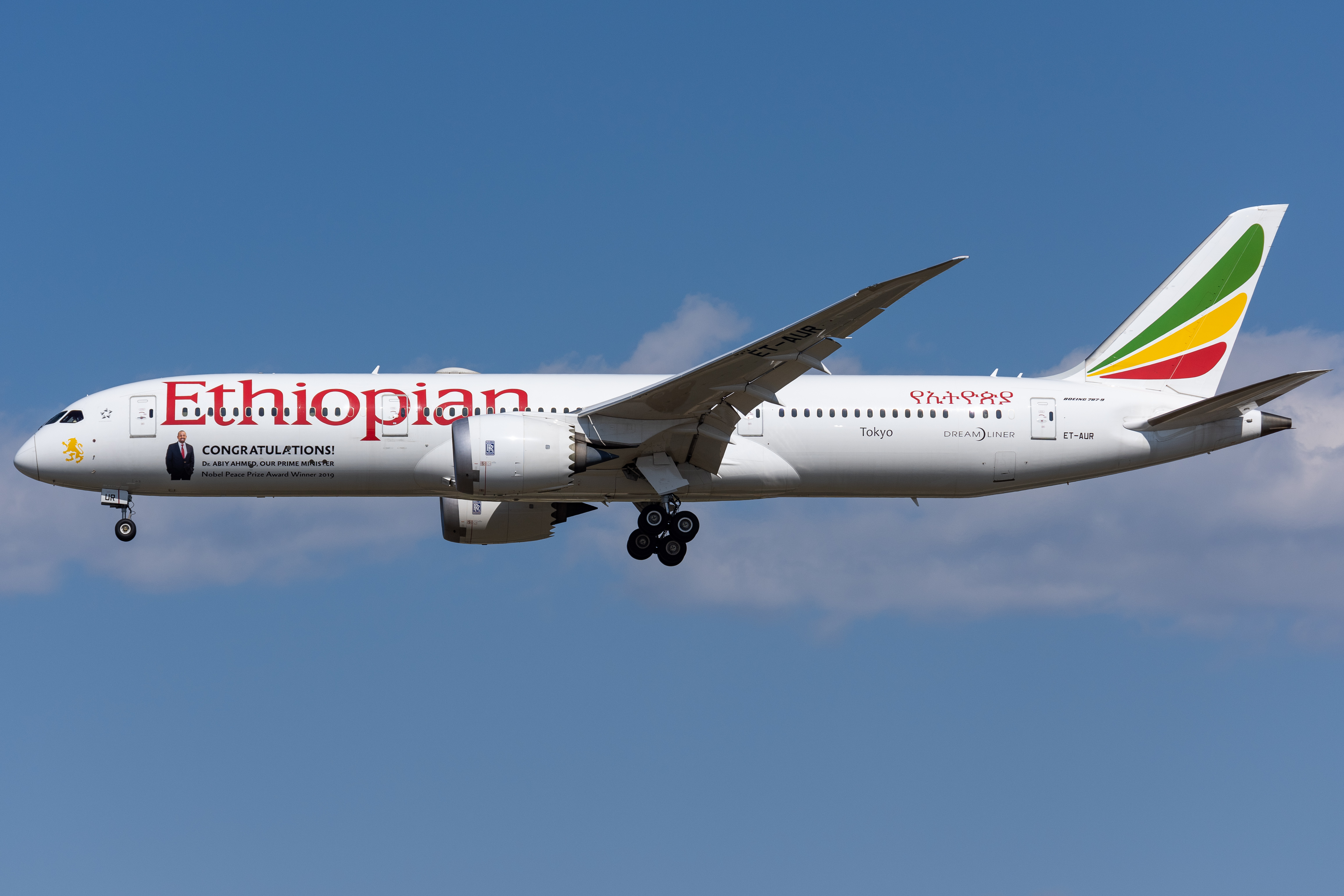 Ethiopian 604 from Addis Ababa, with Abiy Ahmed stickers: "Congratulations! Dr. Abiy Ahmed, our Prime Minister, Nobel Peace Prize Award Winner 2019".